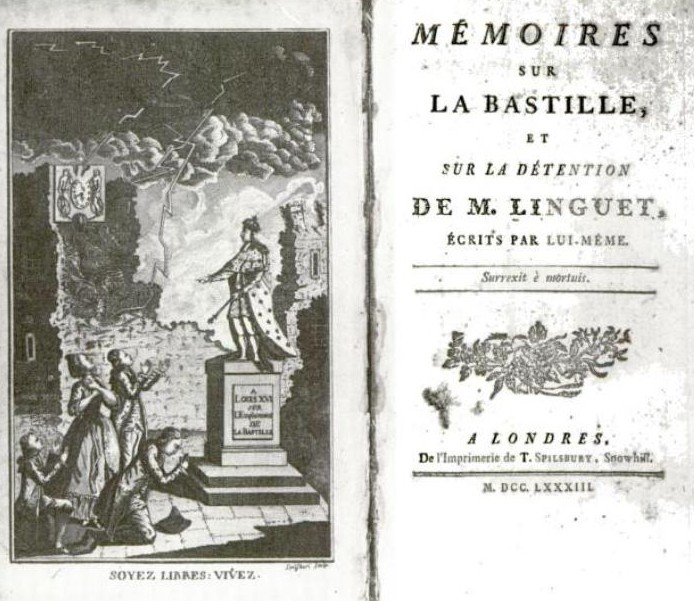 Title page of Linguet's Memoires sur la Bastille